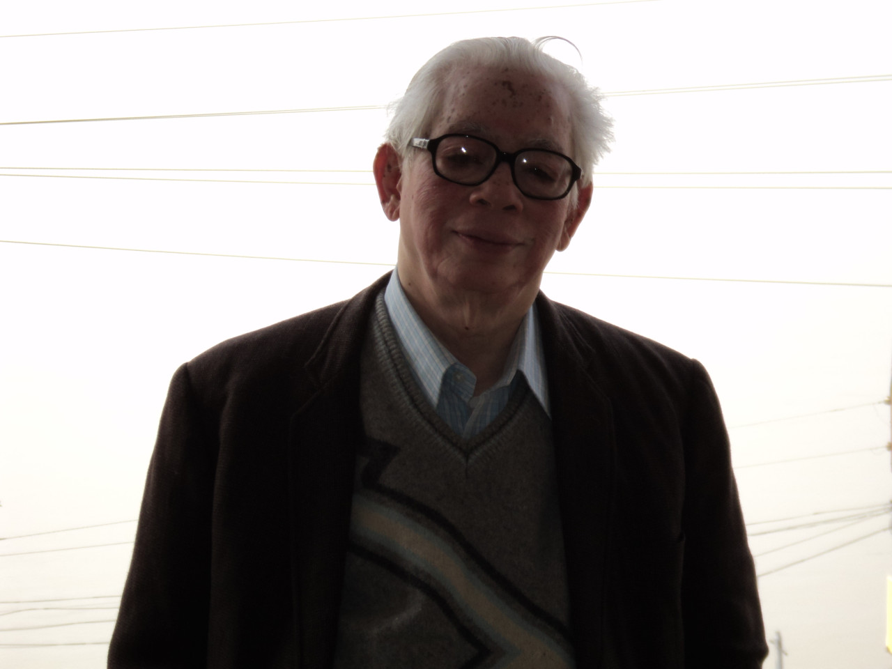 Photo of Dr Debi Prasad Pal.